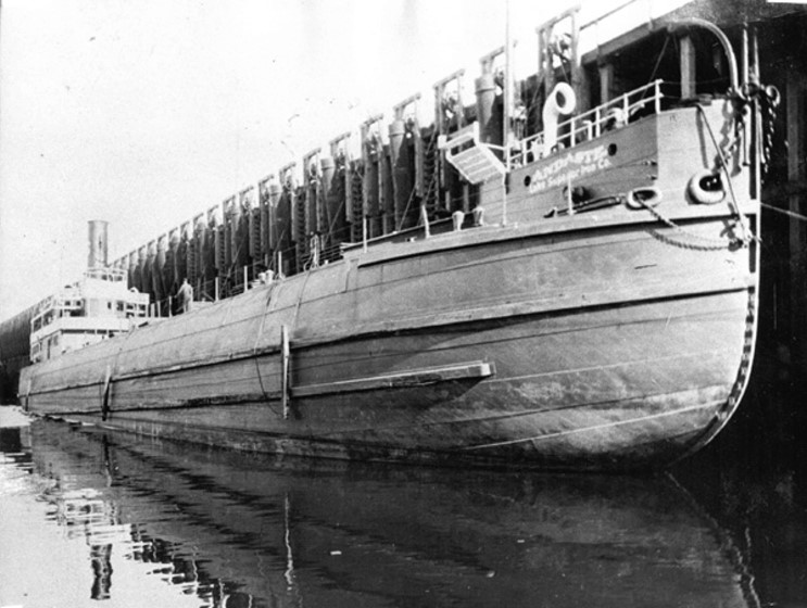 SS Andaste